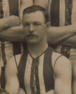 Photograph of Teddy Lockwood in 1902